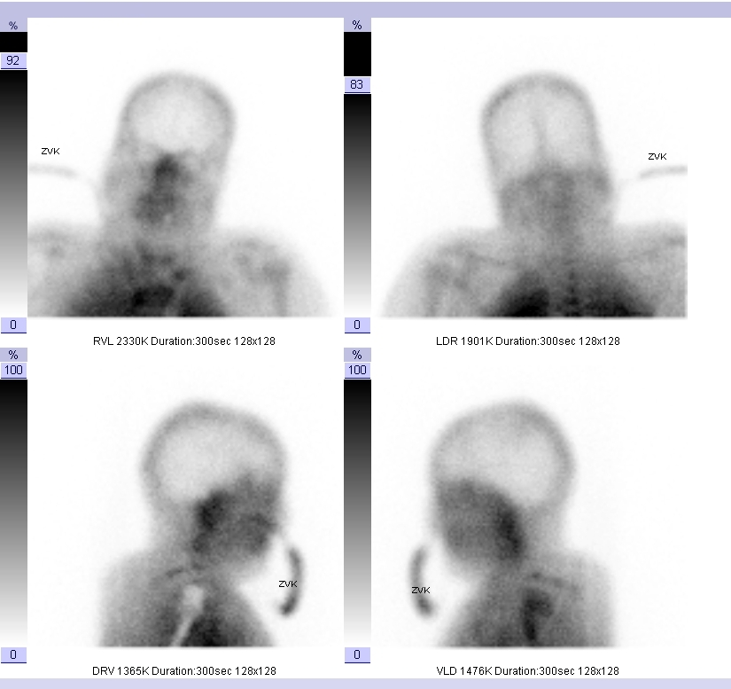 Scintigrafy of brain perfusion. Missing brain perfusion proofs brain death.